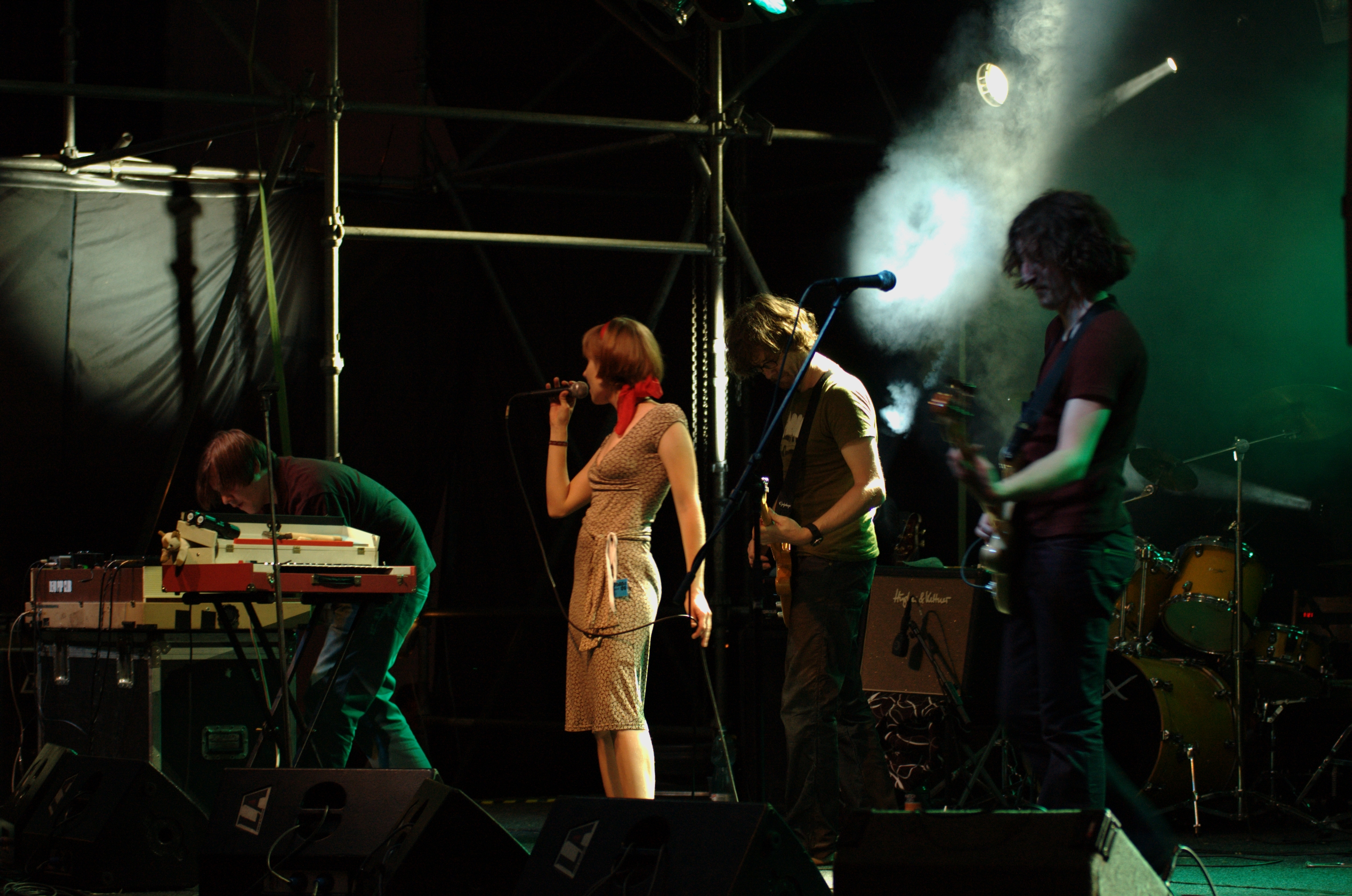 Czech band singing in French... they call their music pop expérimentale and are not bad at all.